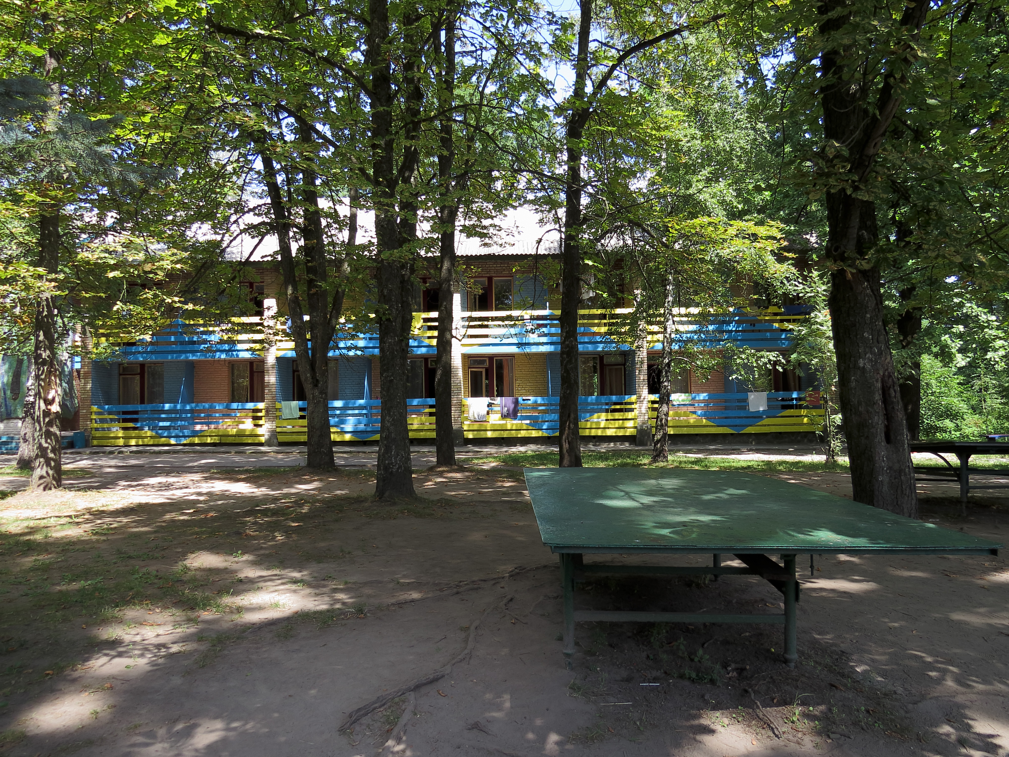 „Promenysty“ summer camp in Bucha, Kiev oblast, Ukraine